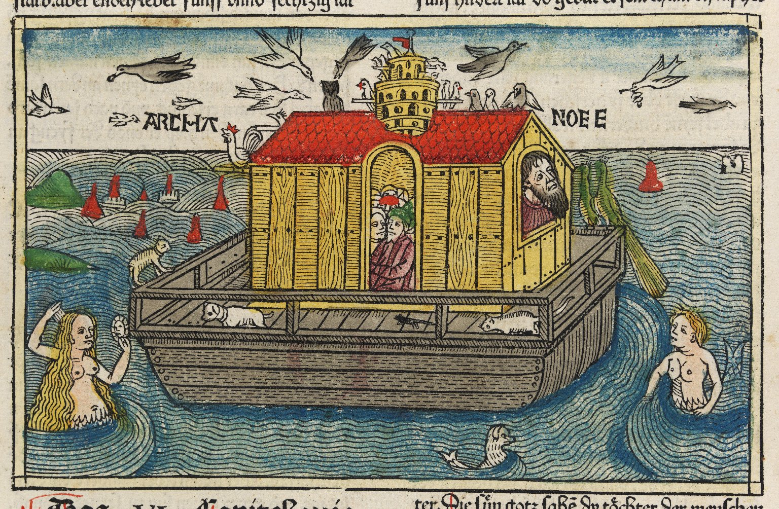 Full record available at: This image is available from the University of Edinburgh Image Collections This item is part of University of Edinburgh Image Collections, gal~2~2~42123~103006View the image in Wikimedia's IIIF-compliant Mirador viewer which enables high resolution zooming.View the image in its original context in the University of Edinburgh Image Collections Catalogue This file was uploaded as part of a GLAMWiki partnership with the University of Edinburgh. This tag does not indicate the copyright status of the attached work. A normal copyright tag is still required. See Commons:Licensing.